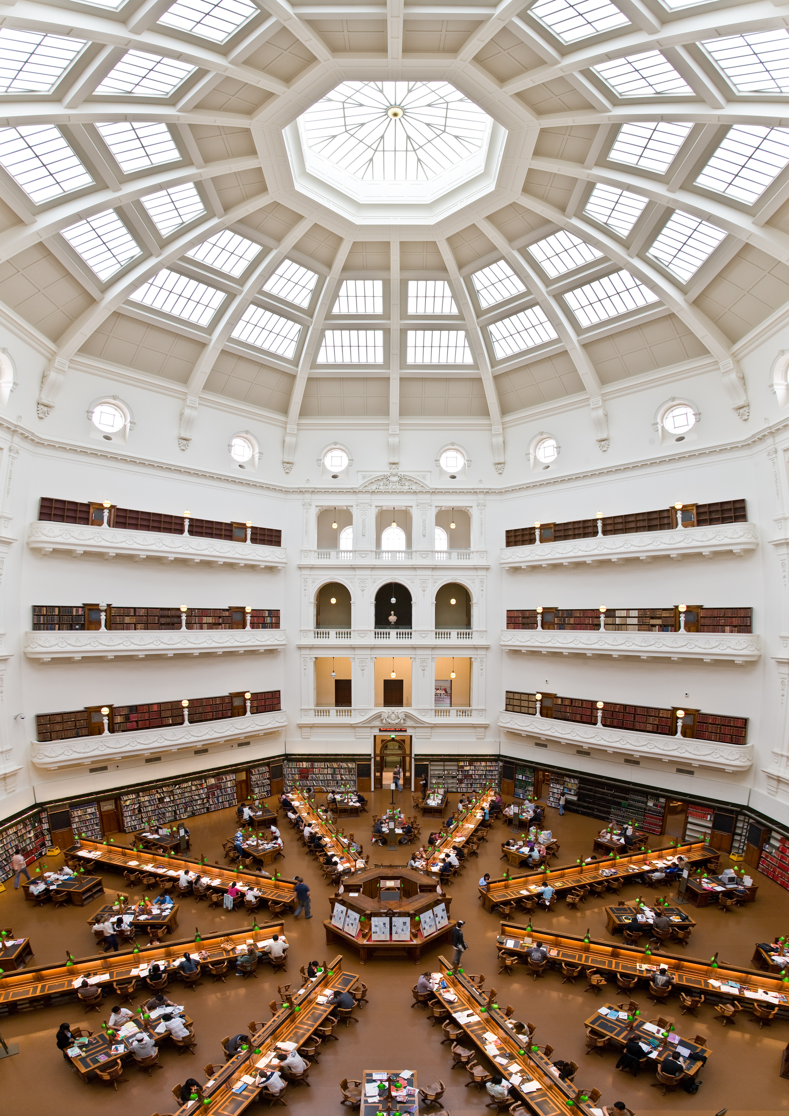 A panorama of the State Library of Victoria, Australia's La Trobe Reading Room as viewed from the 5th floor. This is a photo of 4 photos stitched vertically in landscape format. Taken with a Canon 5D and 24-105mm f/4 IS lens.